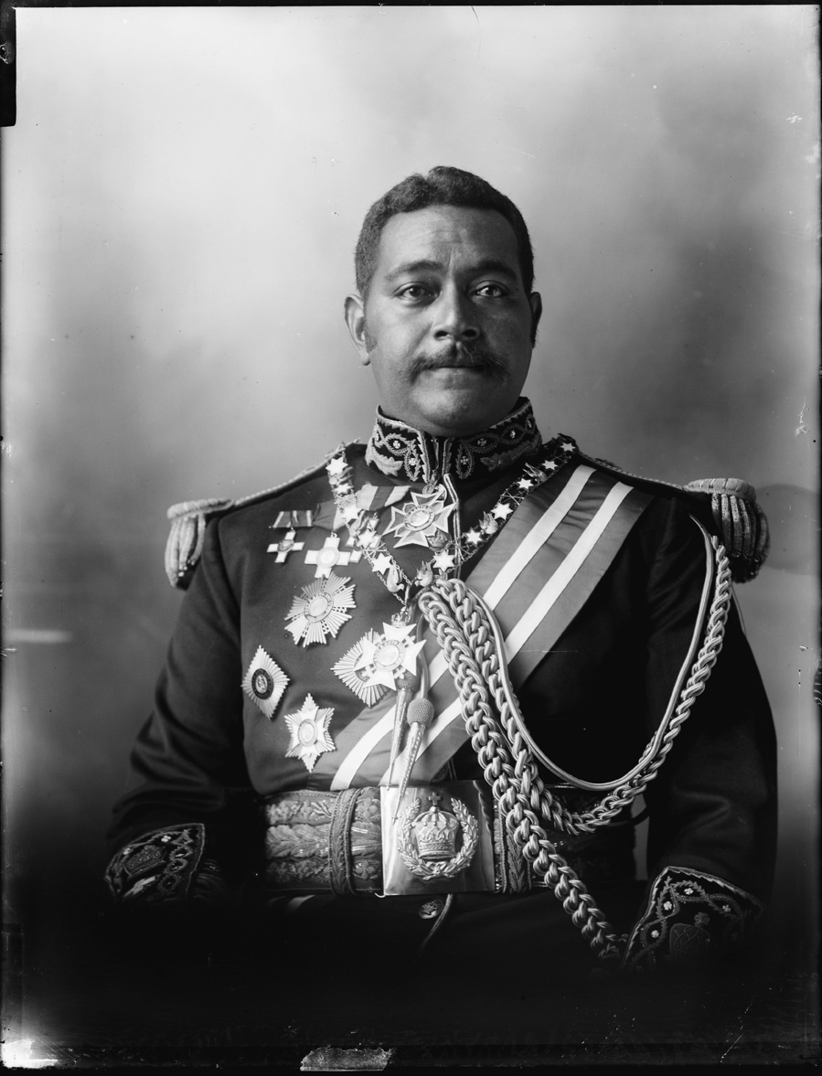 King George Tupou II.